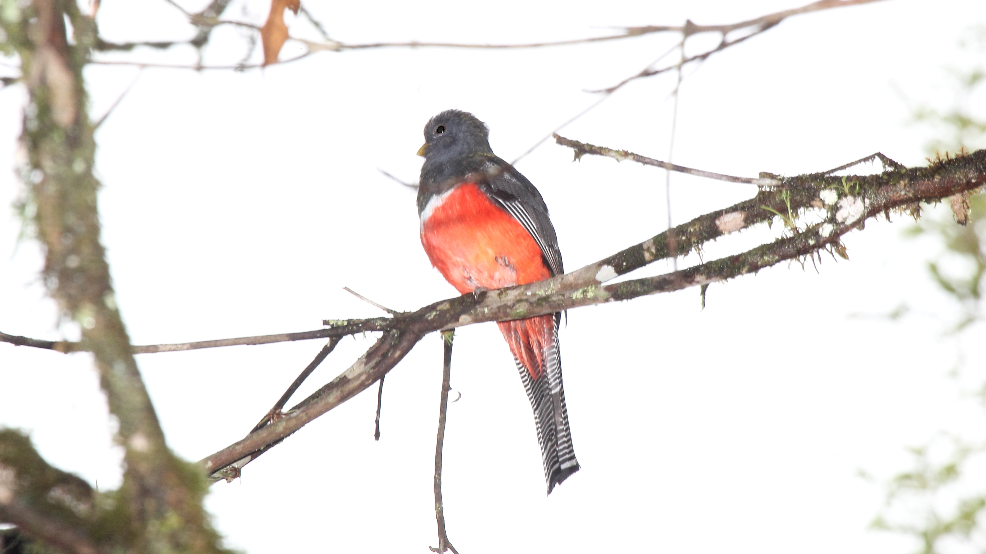 Photographed at Tapanti National Park, Costa Rica.